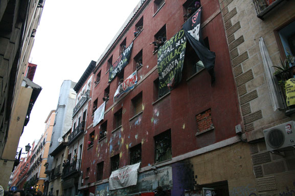 Photograph of the concentration against the eviction of the Patio Maravillas 22/01/2009, this picture shows squater house, its facade and the street where its.